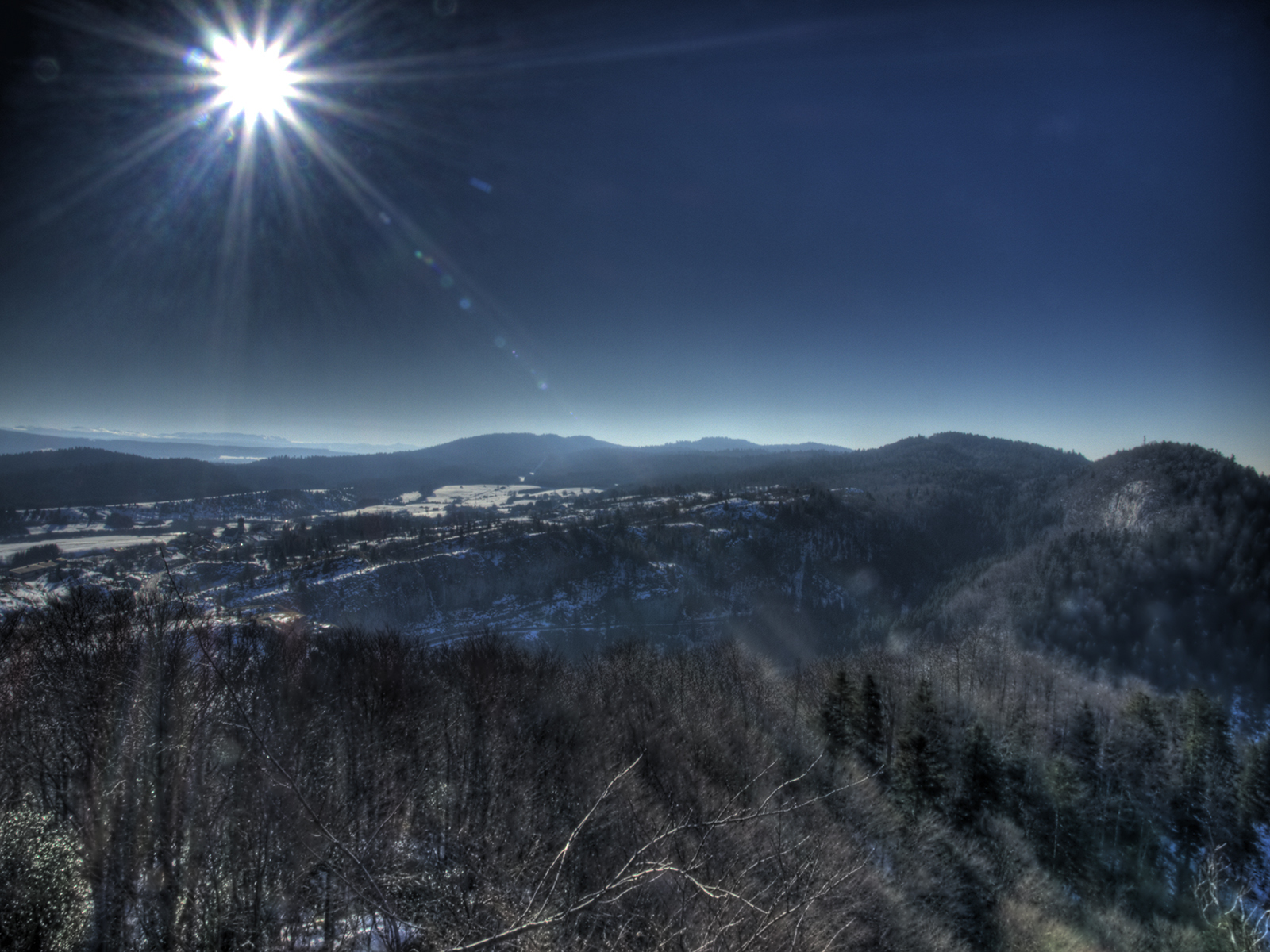 Taken from le Pic de l'Aigle (Eagle Peak), in Jura (France). I forgot my lens hood, that's why the photo shows some sun rays and little circular spots.